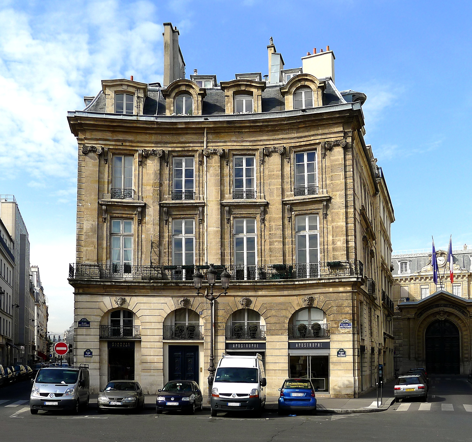 Victoires place (hôtel Charlemagne) - Paris